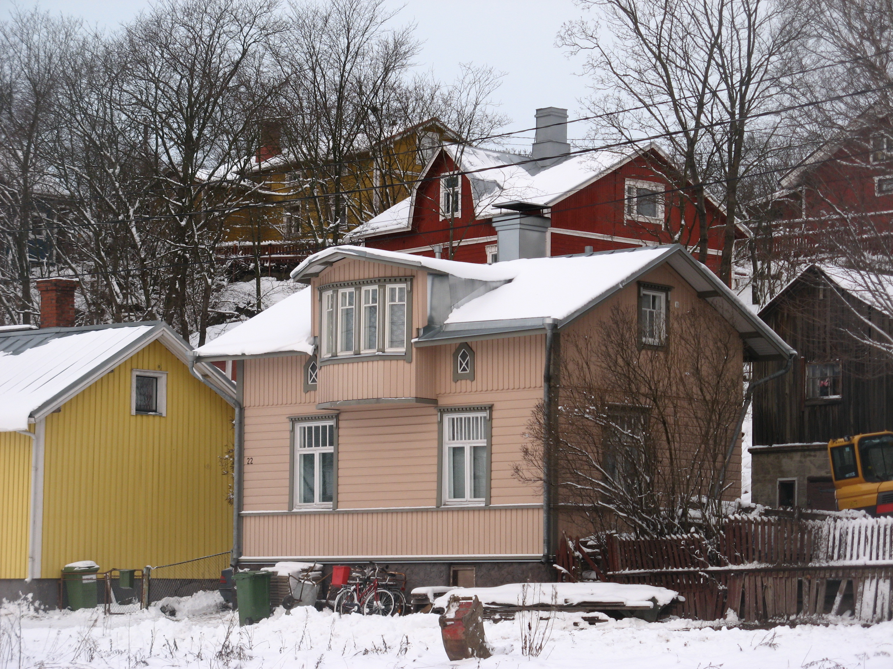 Raunistula seen from the railway